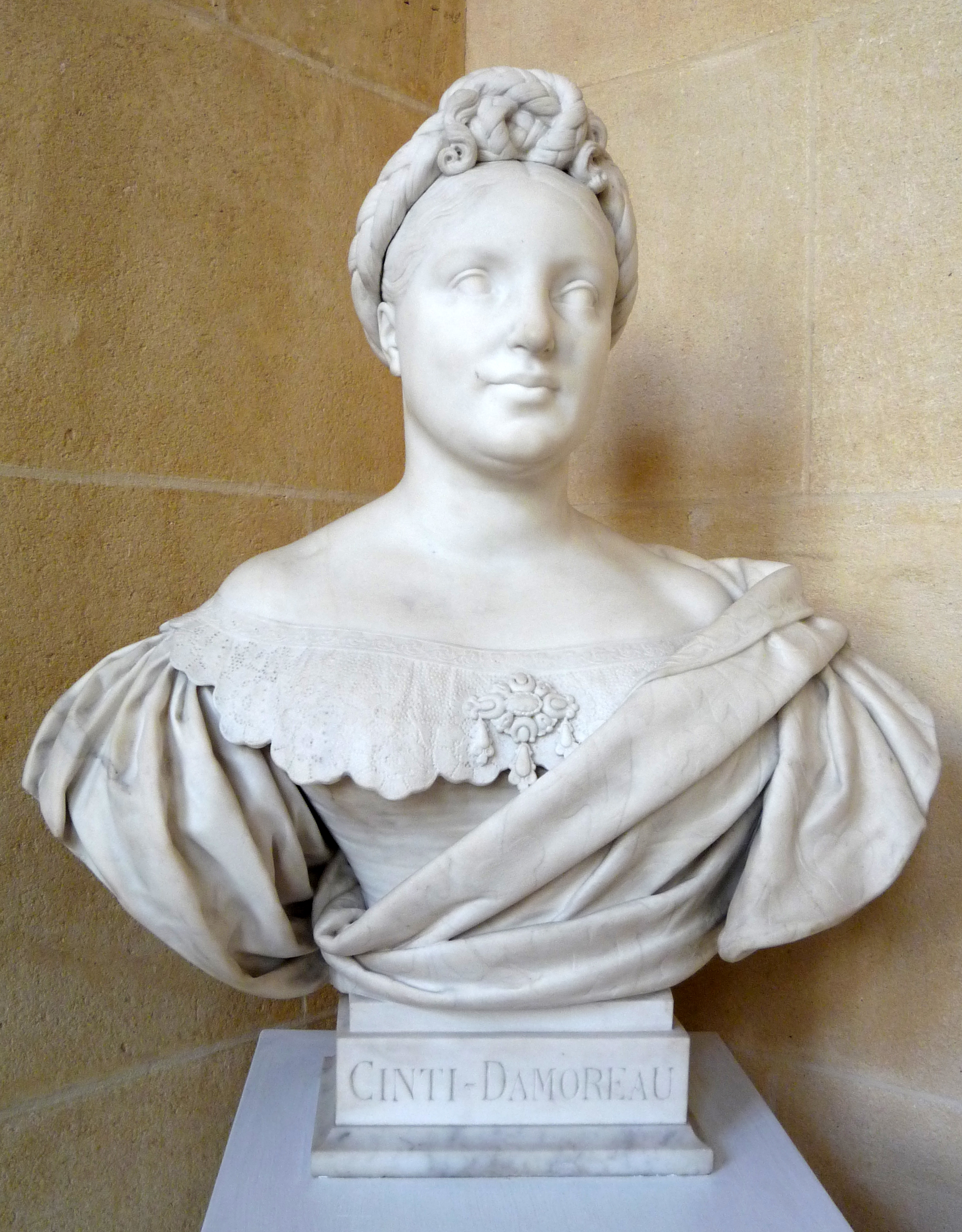 Laure Cinti-Damoreau (1801-1863), French opera soprano, portrait bust by Louis Desprez in the collection of the Musée de l'Opéra, Paris (inv S.3517)